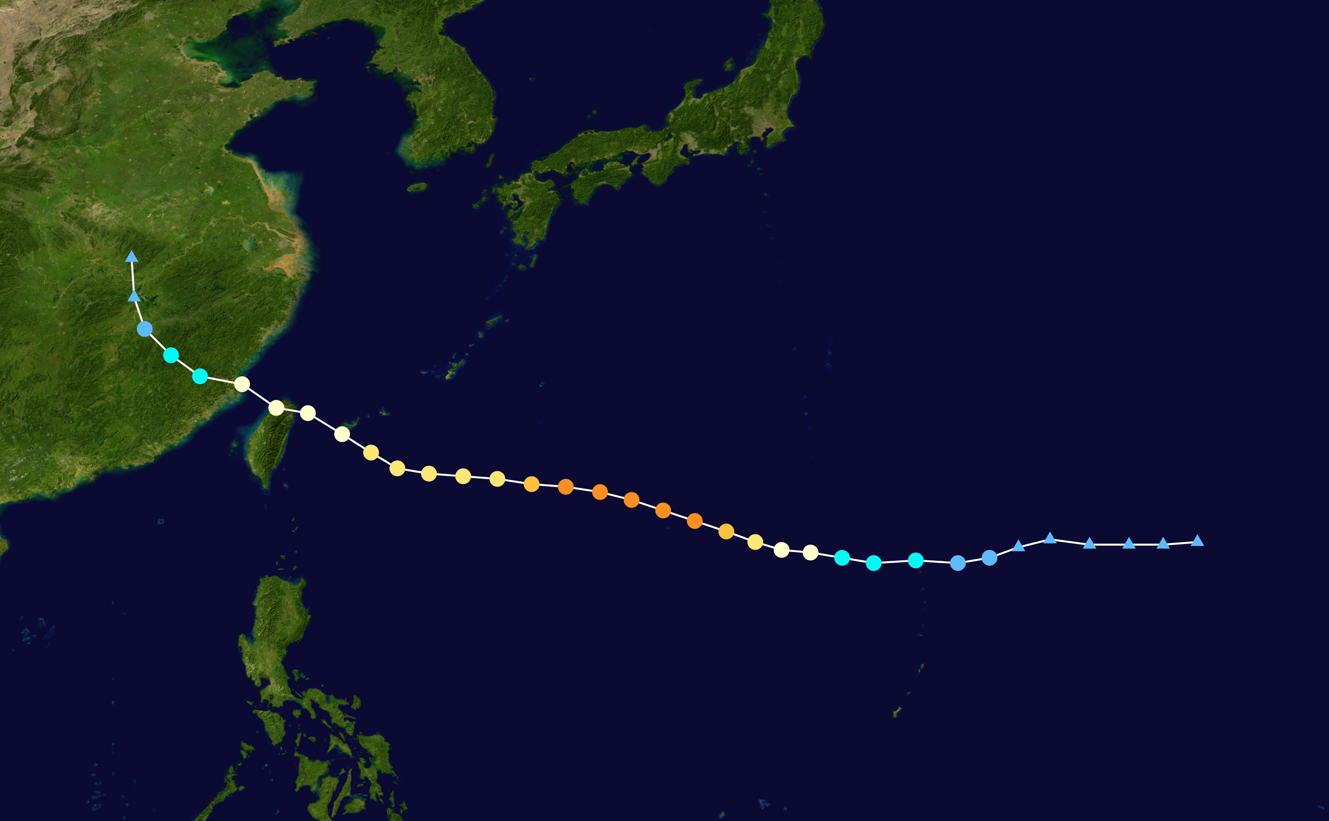 Track map of Typhoon Soulik of the 2013 Pacific typhoon season. The points show the location of the storm at 6-hour intervals. The colour represents the storm's maximum sustained wind speeds as classified in the Saffir–Simpson scale (see below), and the shape of the data points represent the nature of the storm, according to the legend below. Saffir–Simpson scale Tropical depression≤38 mph≤62 km/h Category 3111–129 mph178–208 km/h Tropical storm39–73 mph63–118 km/h Category 4130–156 mph209–251 km/h Category 174–95 mph119–153 km/h Category 5≥157 mph≥252 km/h Category 296–110 mph154–177 km/h Unknown Storm type Tropical cyclone Subtropical cyclone Extratropical cyclone / Remnant low / Tropical disturbance / Monsoon depression